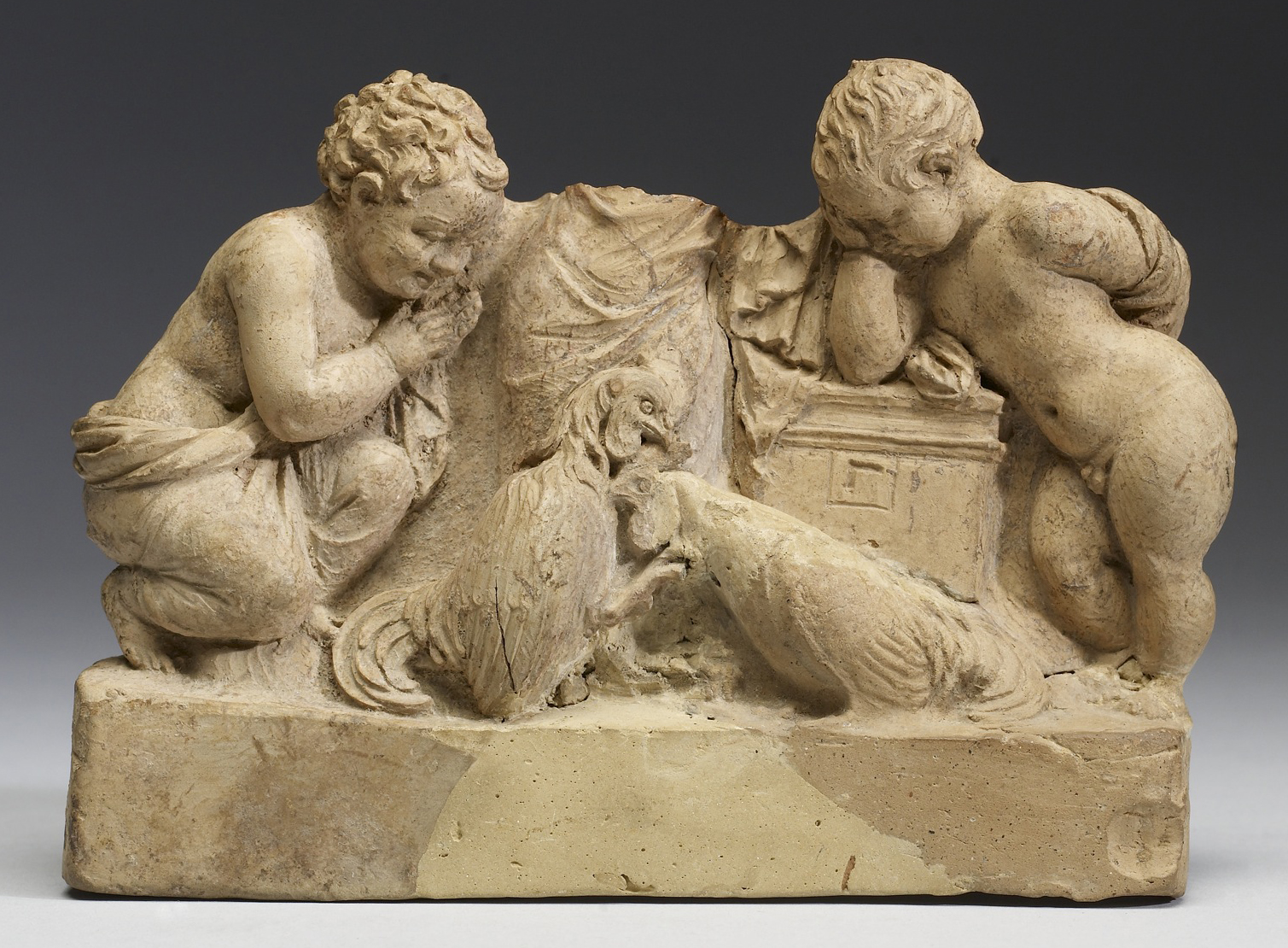 Made in ancient Amisos (present-day Samsun) along the Black Sea coast of Asia Minor, the relief is a rare example of a multi-figured terracotta group and may well have been inspired by a work in another medium. The child on the right mimics the pose of the famous statue of the "Weary Heracles" (Archaeological Museum, Naples, Italy).